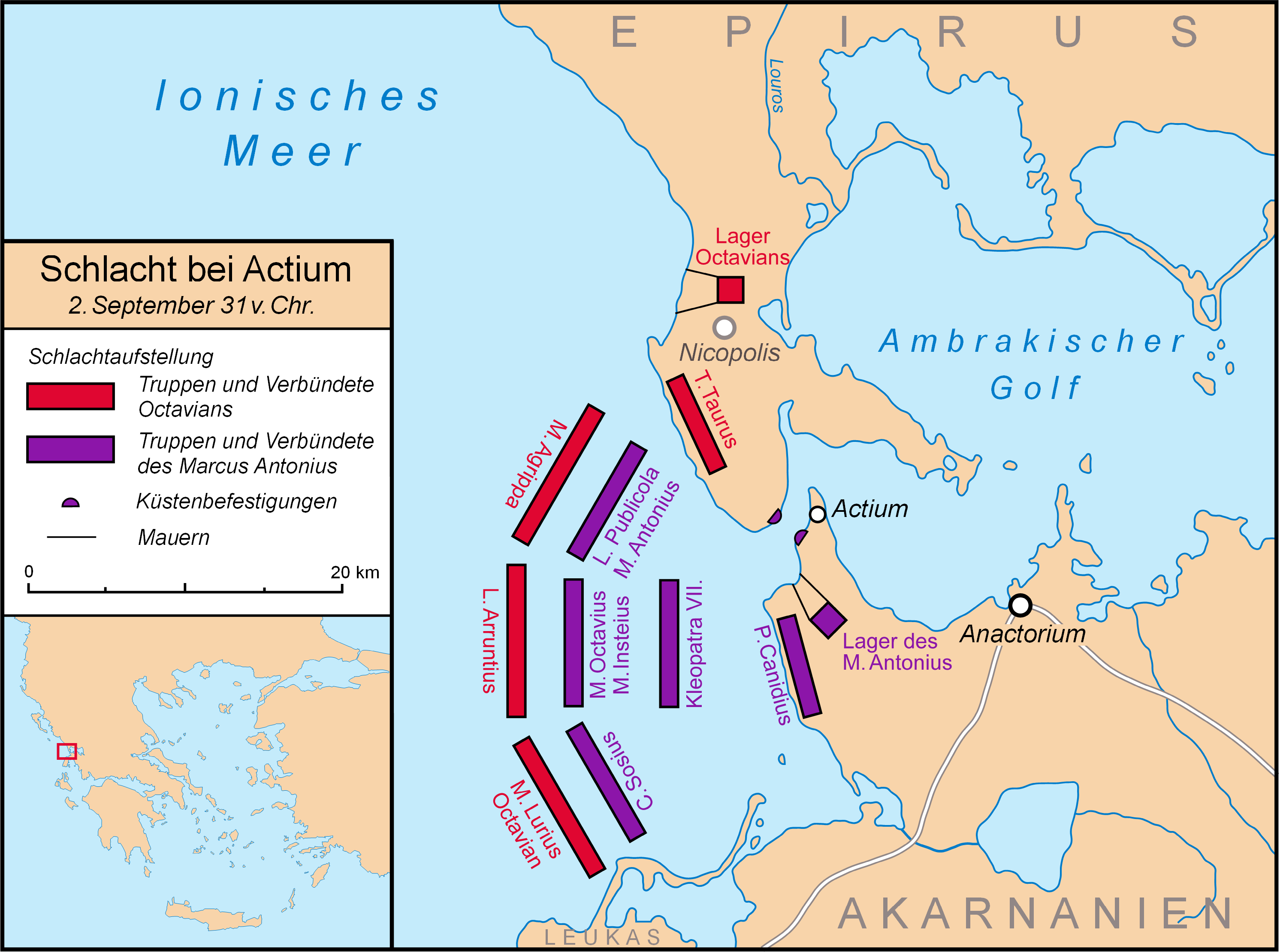 Battle of Actium